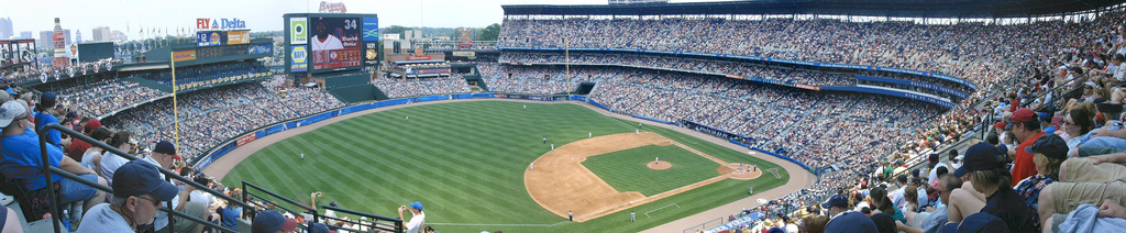 Panoramic shot of Atlanta's Turner Field (formerly Centennial Olympic Stadium) on June 17, 2006, where the Boston Red Sox defeated the Atlanta Braves 5-3.